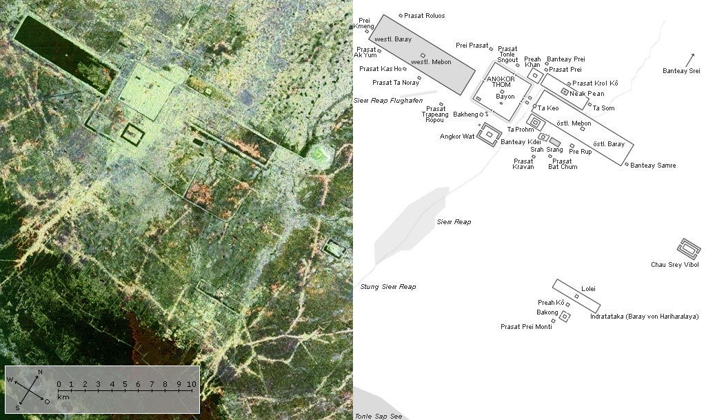 Satellite image by NASA with a map showing the larger and more important temples and structures of the Angkor area (Cambodia), the city Siem Reap, the airport, the river and a corner of Tonlé Sap lake.